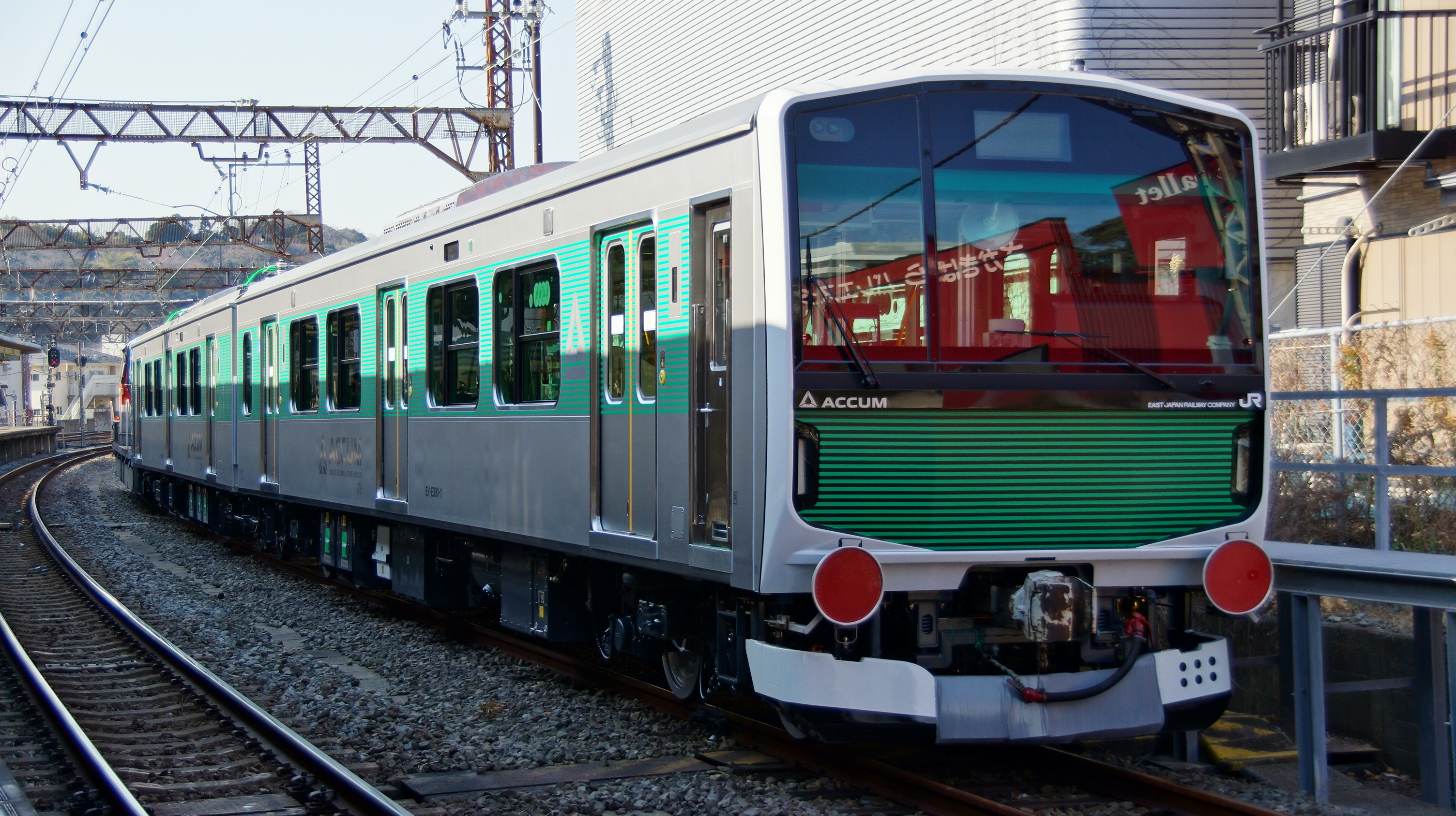 The first JR East EV-E301 series battery EMU set, V1, at Zushi Station on delivery from the J-TREC factory in Yokohama